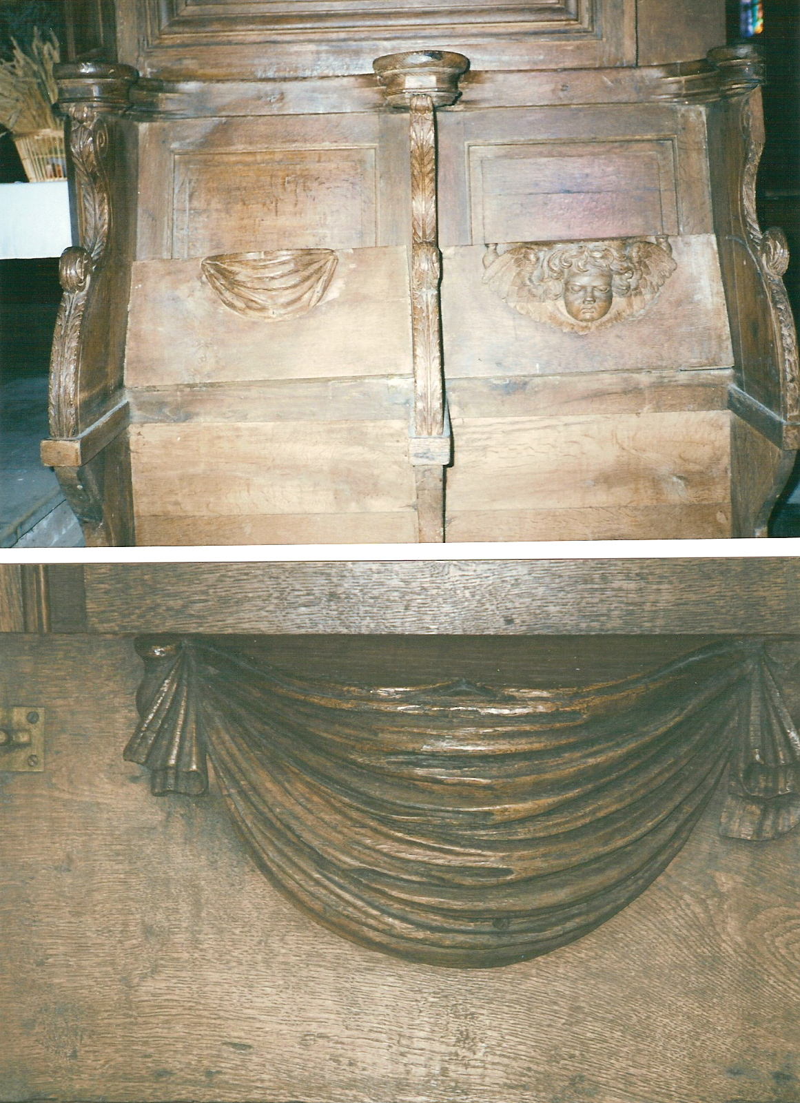 Misericord from church of Villers-Cotterêt (Aisne) FRANCE